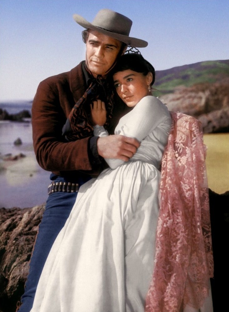 Marlon Brando & Pina Pellicer in One-Eyed Jacks - publicity still